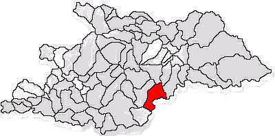 Map of Groşii Ţibleşului commune in Maramureş